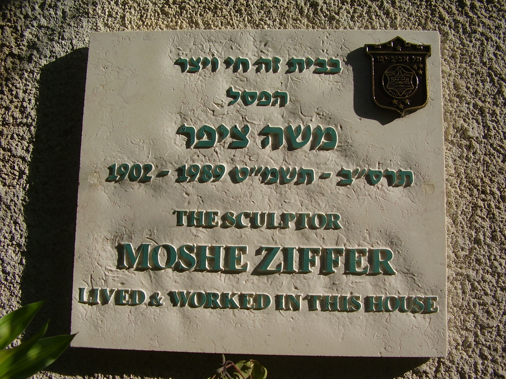 memorial plaque to the sculptor moshe ziffer in tel aviv לוחית זיכרון על ביתו של הפסל משה ציפר ברח' הרב פרידמן 1 בתל אביב